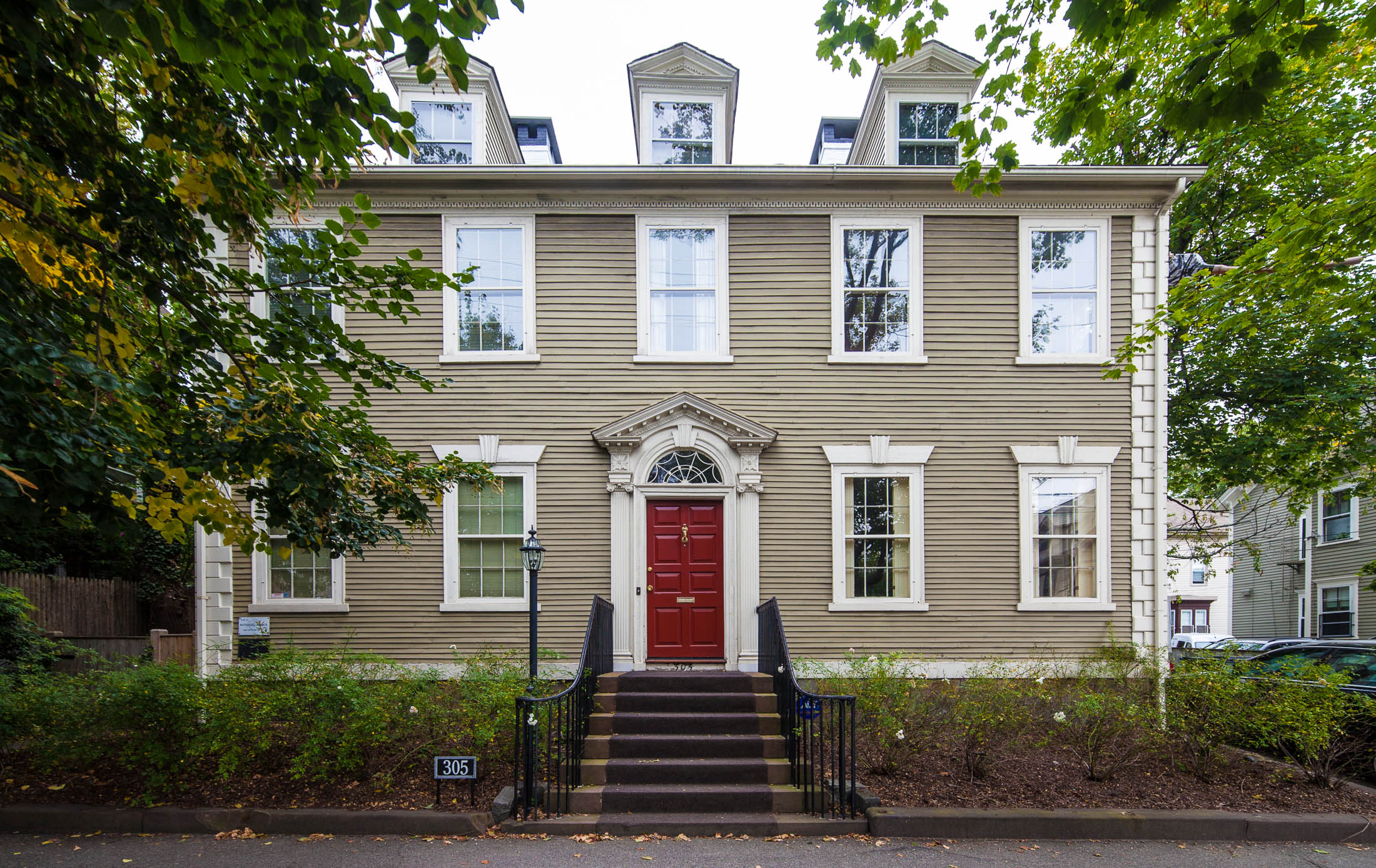 Nathaniel Pearce House